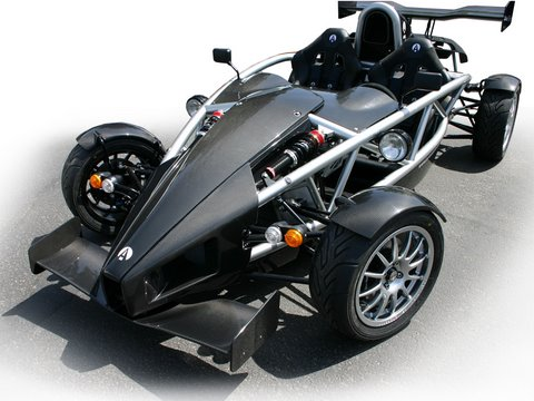 Brammo manufactured Ariel Atom - Carbon Wings